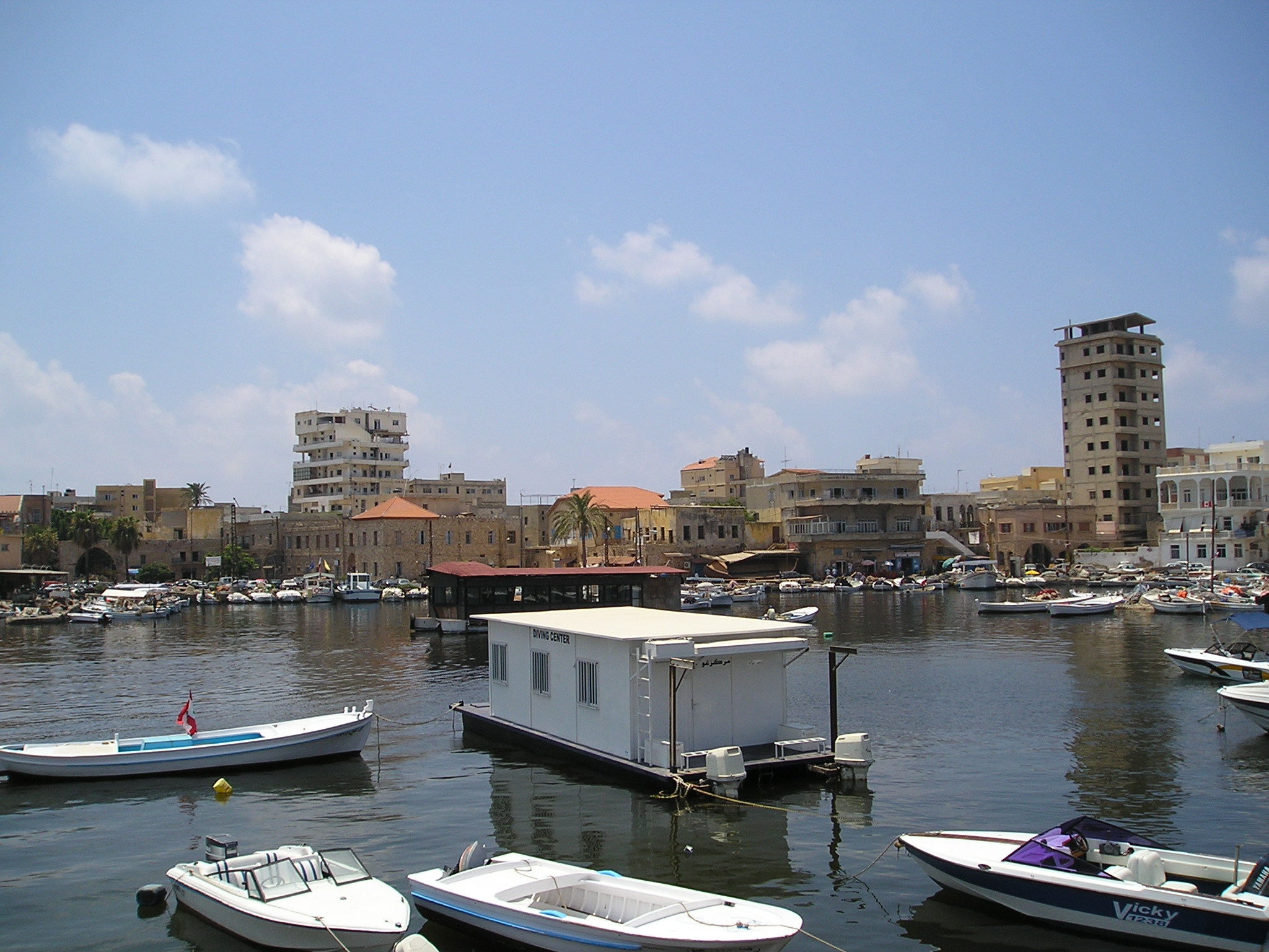 Tyre, Lebanon - a fishing harbour and old part of the town